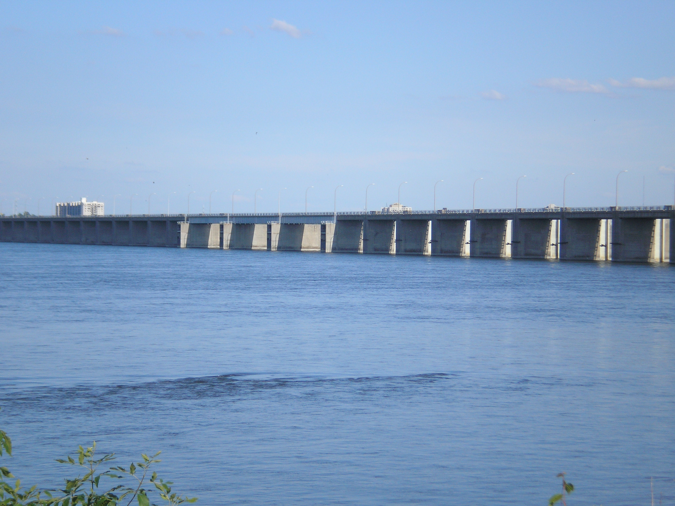 The Champlain Bridge Ice Control Structure seen from Montreal.